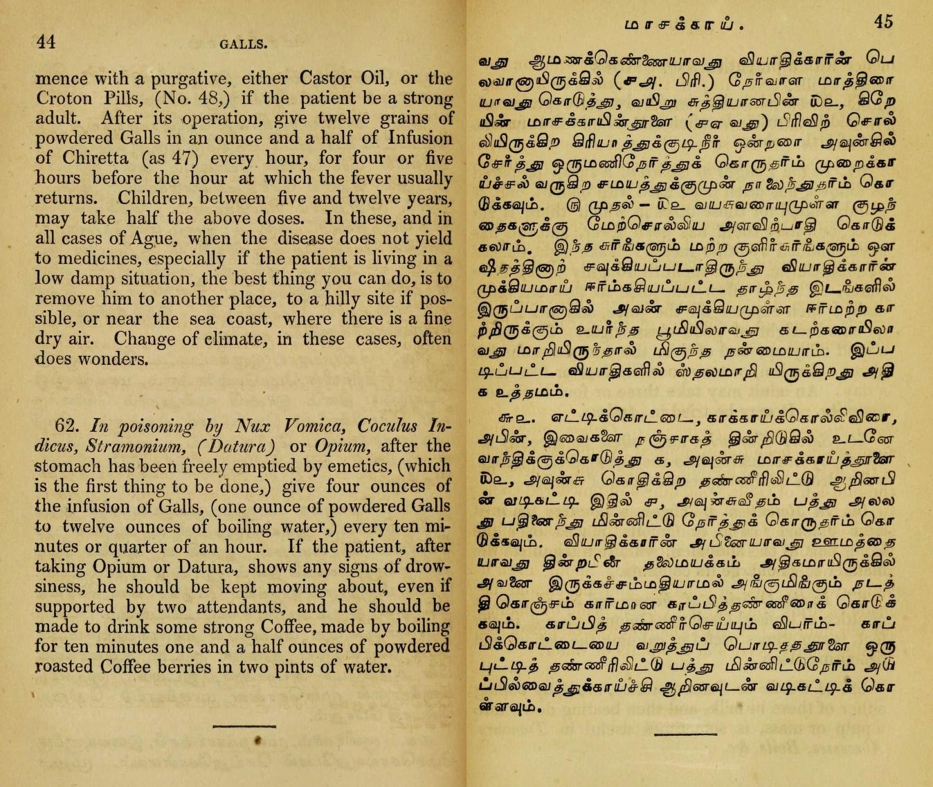 A page from Waring's dual-language English and Tamil book on medicines.